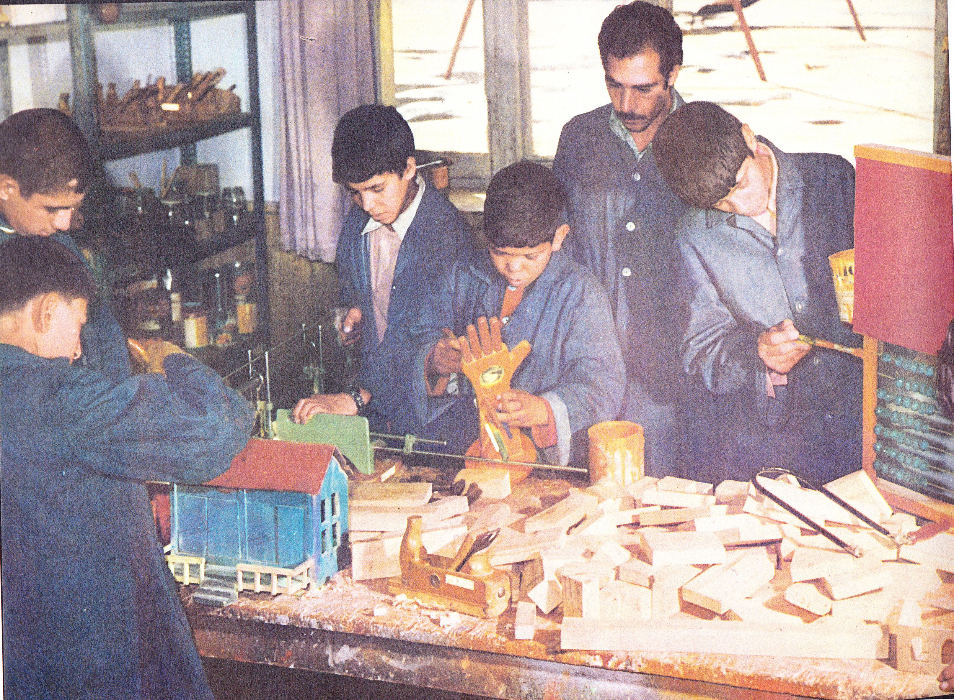 vocational education, anjoman-e melli-e hemajat-e kudakan, Tehran